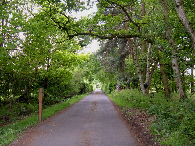 Entrance to Soss Moss Hall. Private entrance protected by much security. View south looking over the gate from Nursery Lane. Soss Moss Hall (in square SJ8275) is shown as an antiquity on the 1/25,000 map.